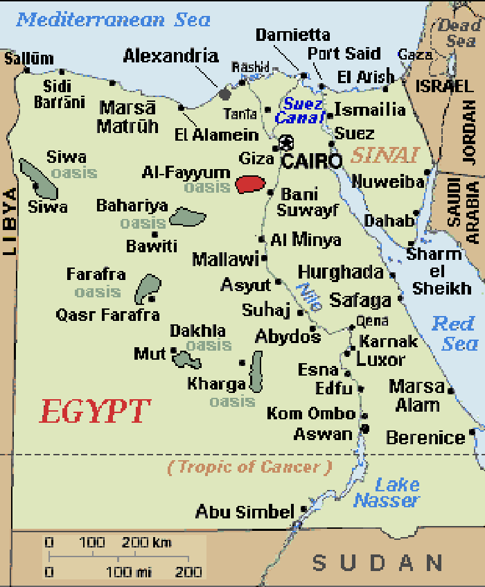 Adaptation: Faiyum Oasis is highlighted in red in Egypt